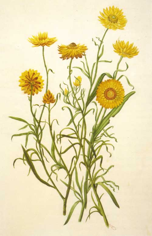 Botanical plate depicting Xerochrysum bracteatum (painted as Helichrysum lucidum)